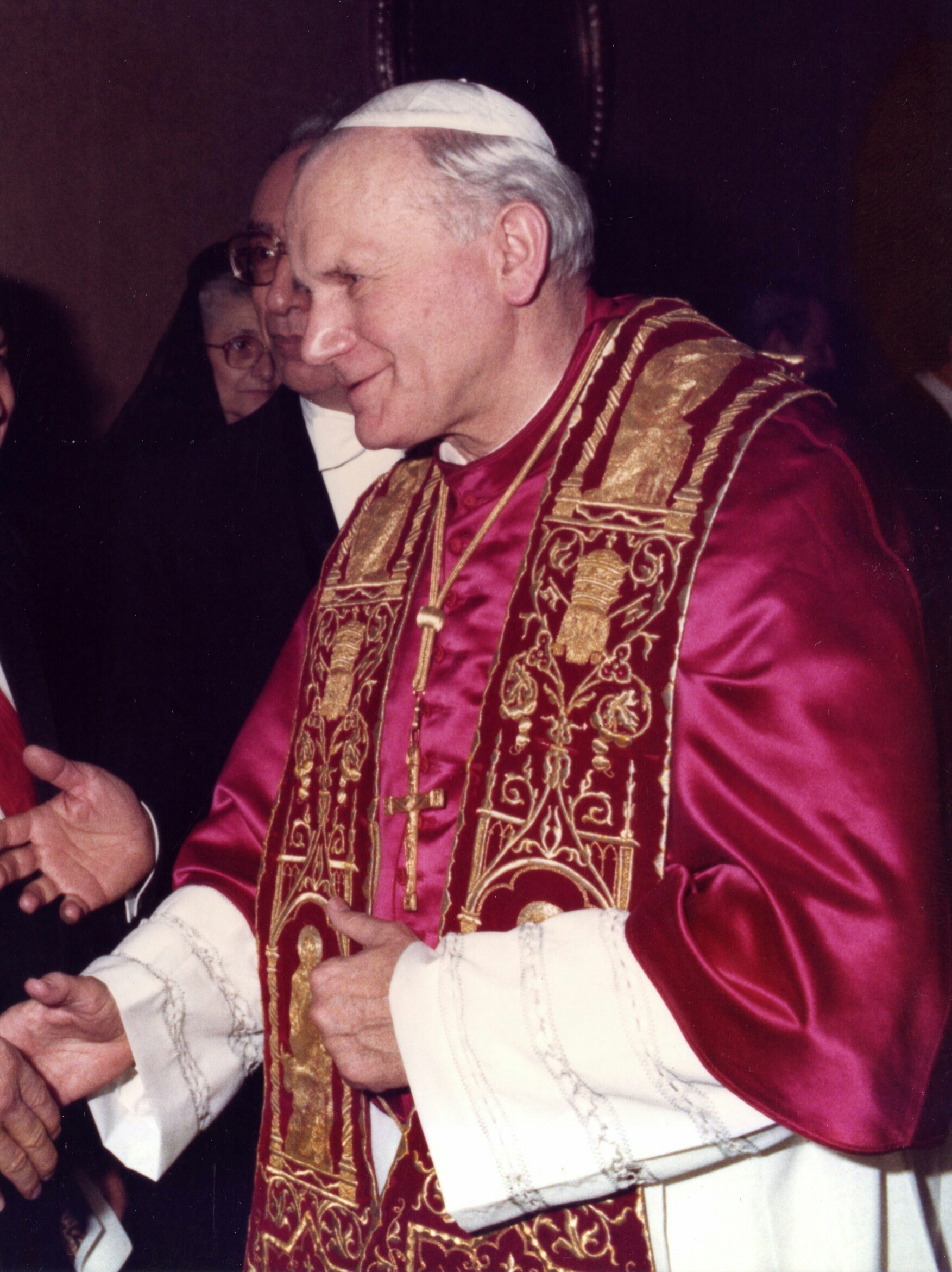 Offical visit to Vatican - Pope Jean Paul II